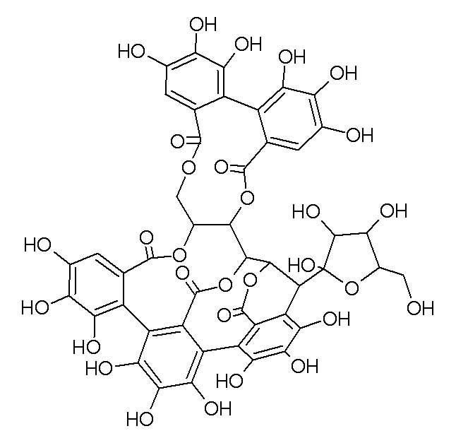 Chemical structure of grandinin